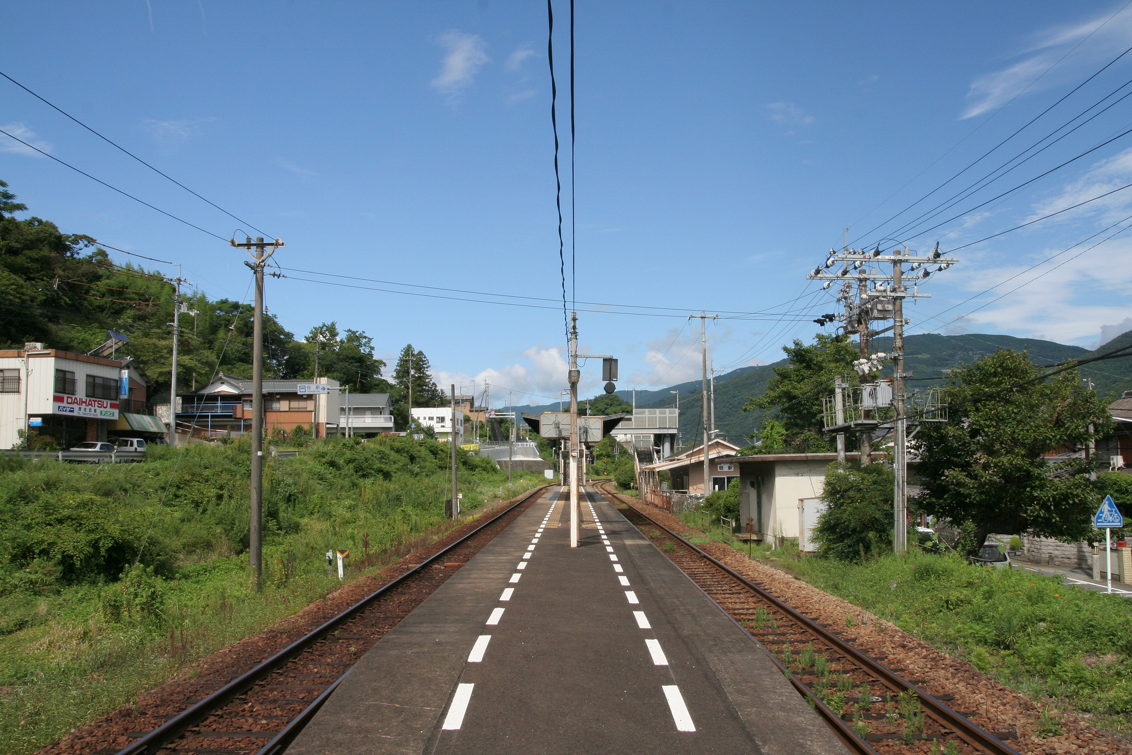 Shikoku Railway Tokushima Line Dosan line tsukuda Station enclosure